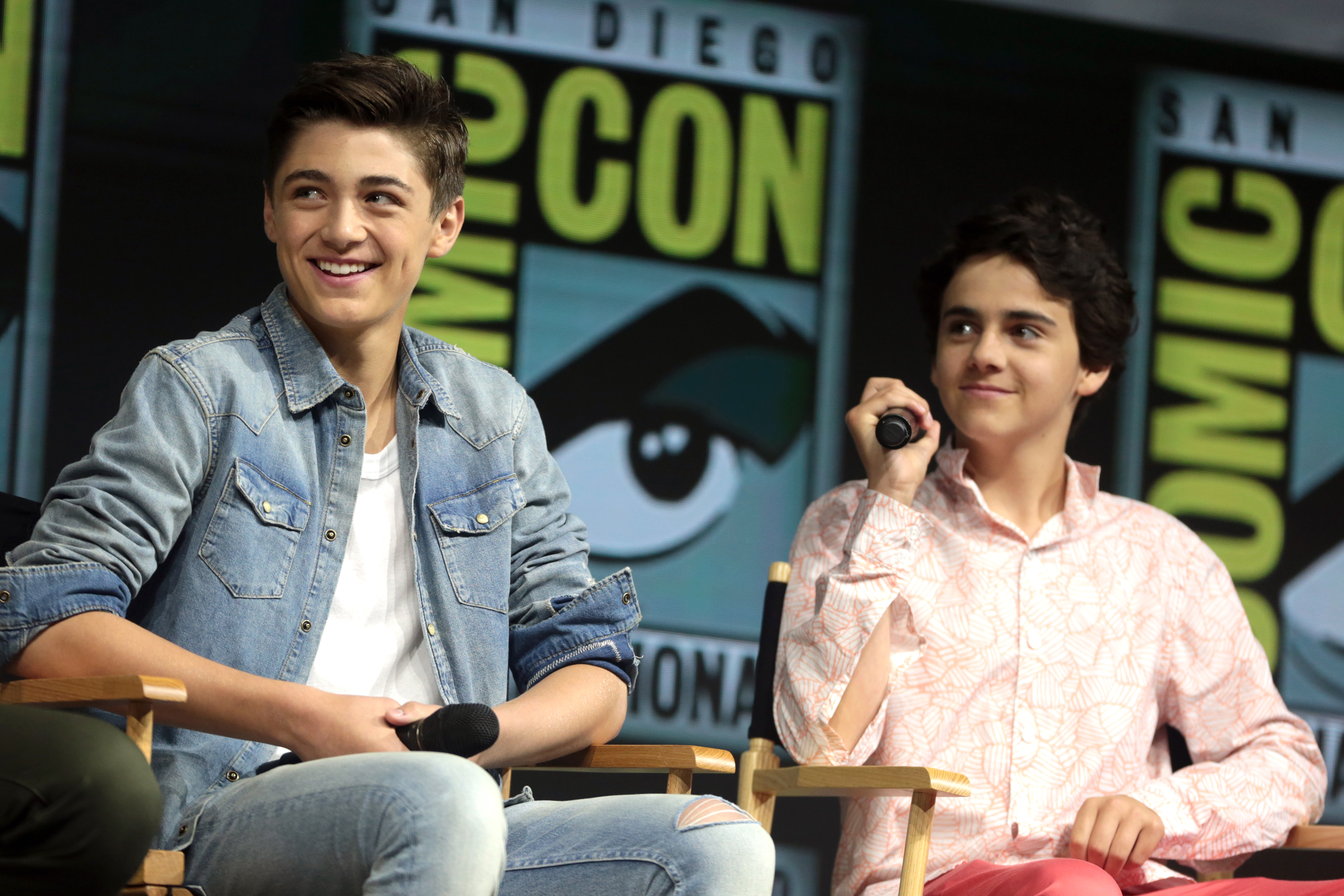 Asher Angel and Jack Dylan Grazer speaking at the 2018 San Diego Comic Con International, for "Shazam!", at the San Diego Convention Center in San Diego, California.